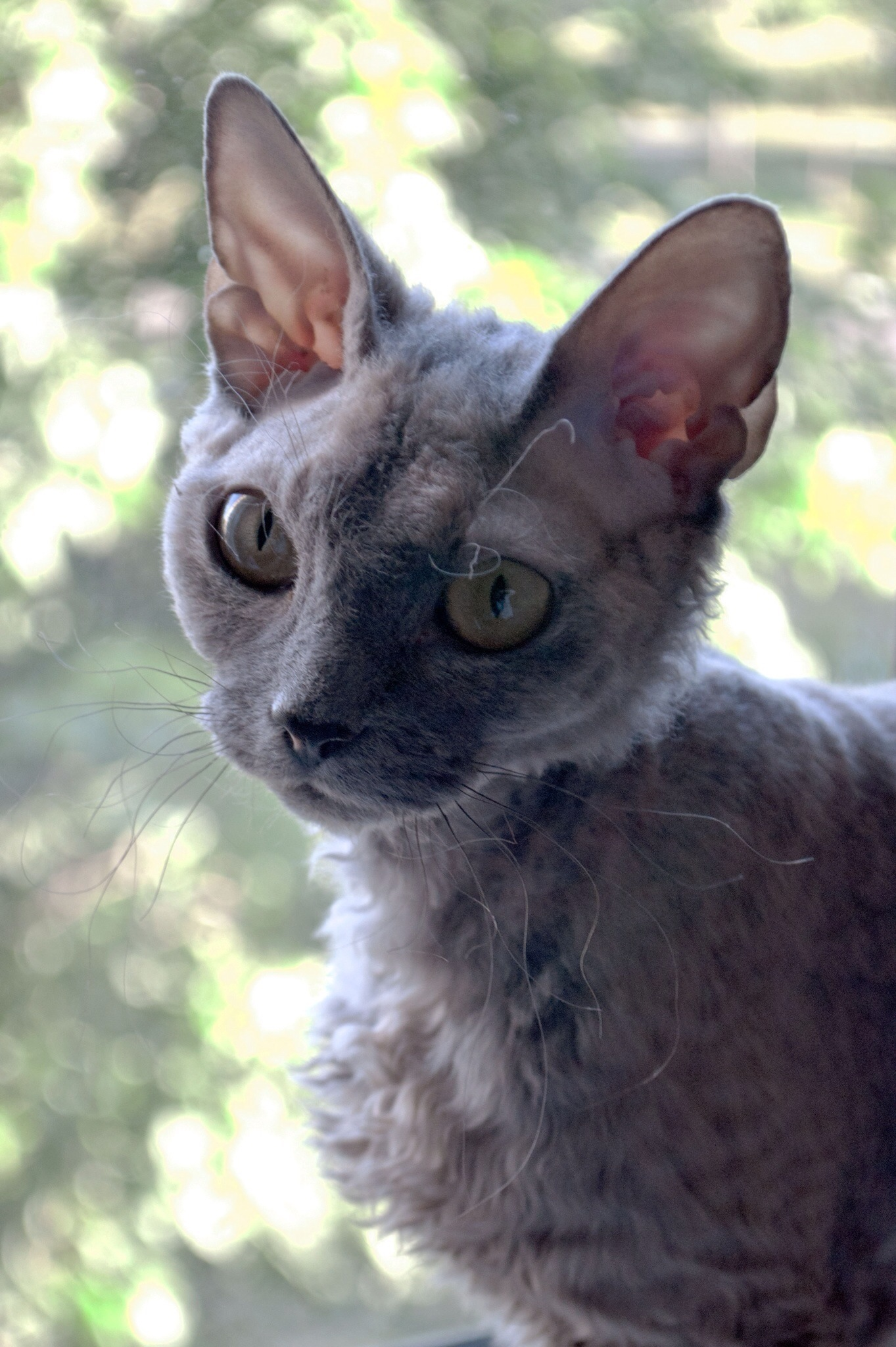 The cat Cassini of the species devon rex.